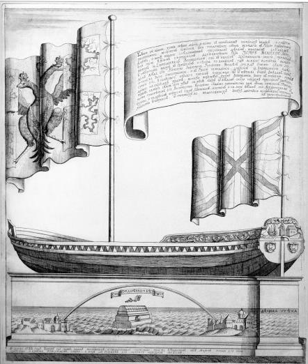 Engraving by I. F. Zubov of a Drawing by I. P. Zarudny of the Botik of Peter the Great